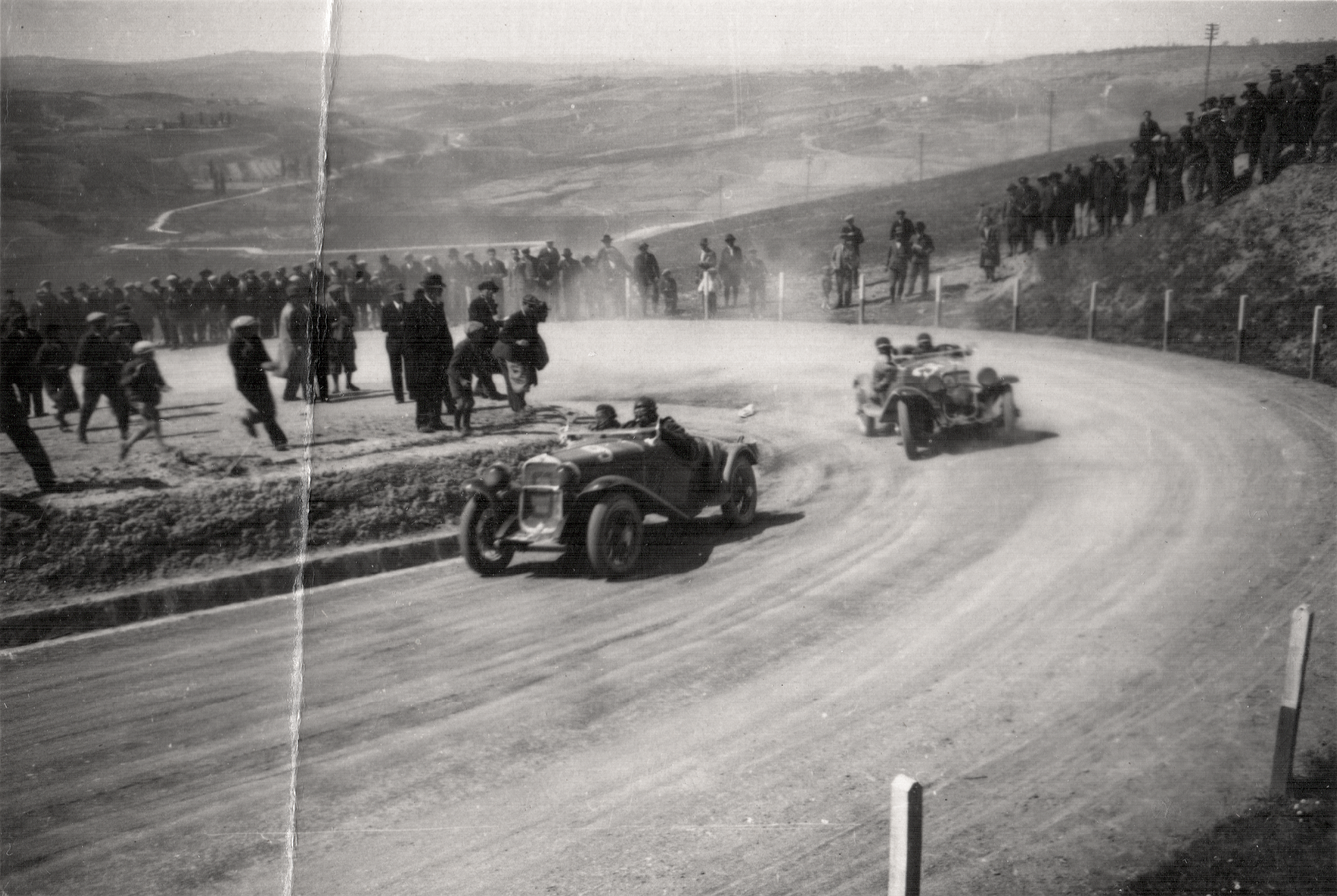 This shot is from the Sixth edition of Mille Miglia on 10 April 1932. The location is Montalcino-Radicofani near Siena. In front is entry #9, a Fiat 514 MM driven by Arturo Mercanti and co-driver Francani (ended in 37th place). Behind is entry #25, a Fiat 514 CA driven by Luigi e Angelo Bettinazzi (ended in 35th place).[1]